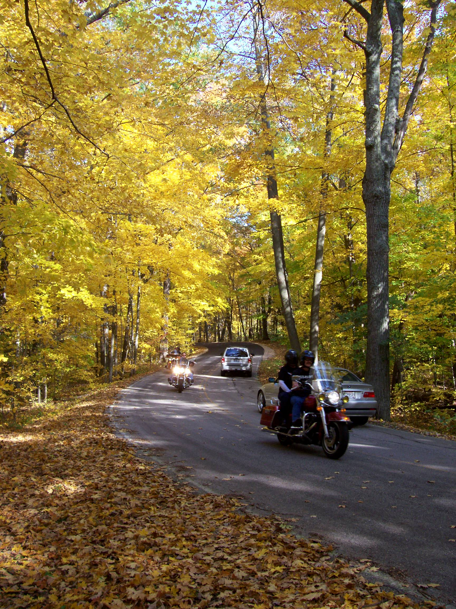 Busy traffic on the Kettle Moraine Scenic Drive in western Sheboygan County, Wisconsin during the fall.